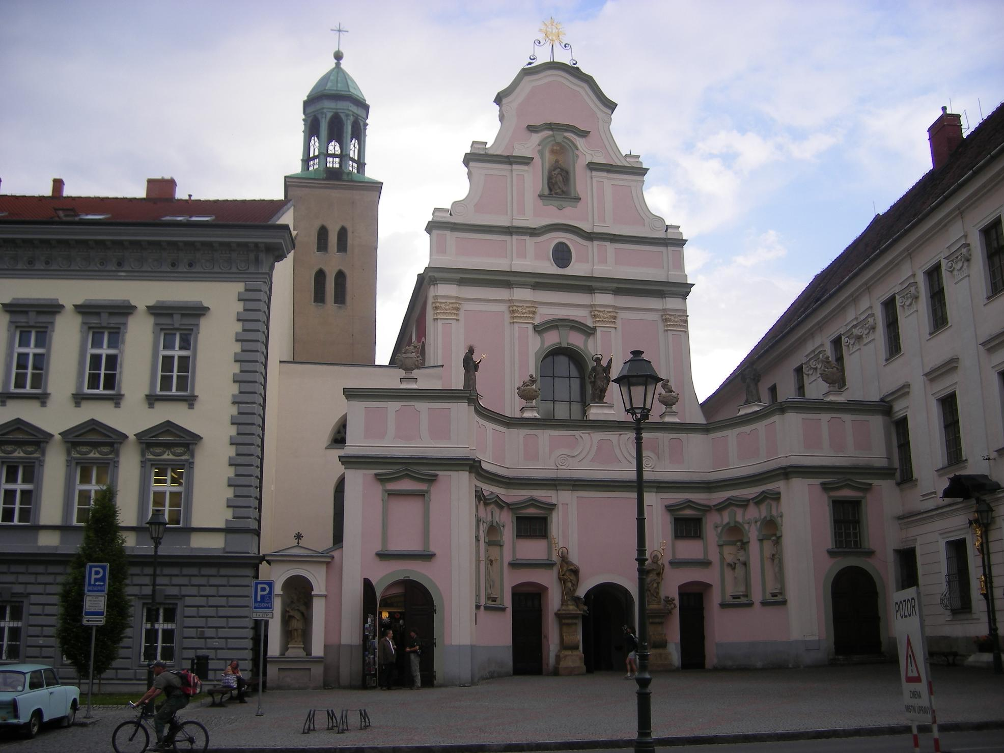 University Church in Opava